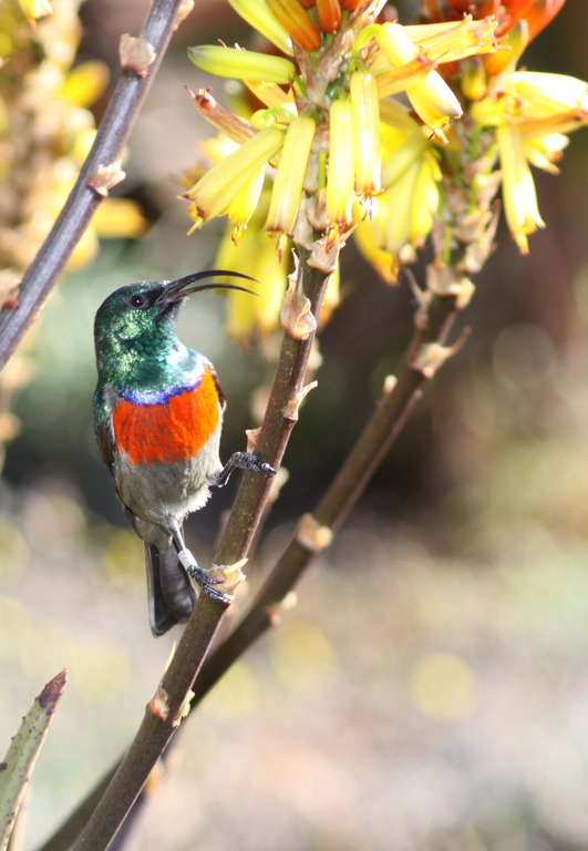 A male Greater Double-collared Sunbird at Walter Sisulu National Botanical Garden, Roodepoort, Johannesburg, South Africa.